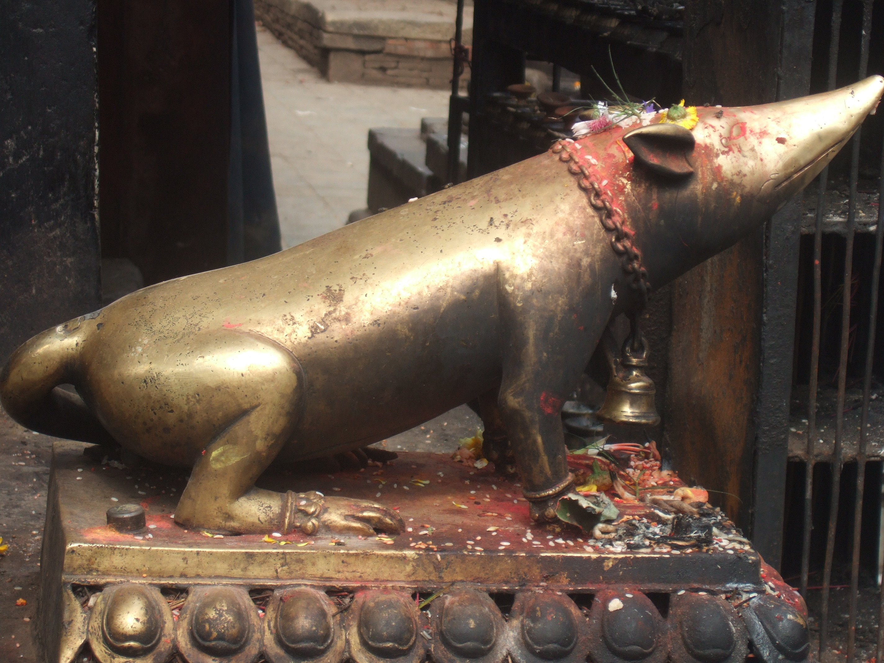 Statue of a rat in Patan (Nepal)